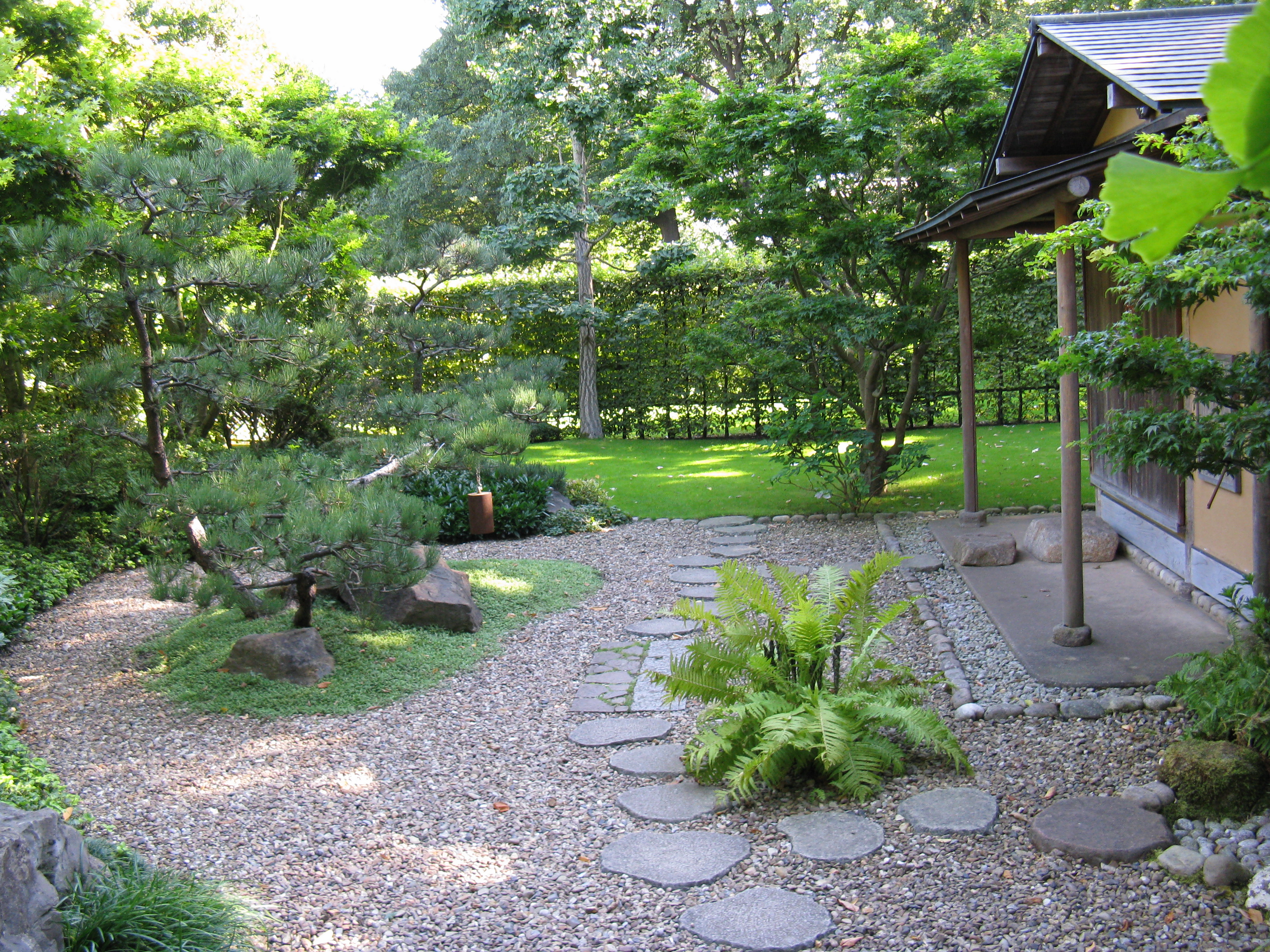 Hannover (Germany, Lower Saxony): Stadtpark (also known as Stadthallengarten)